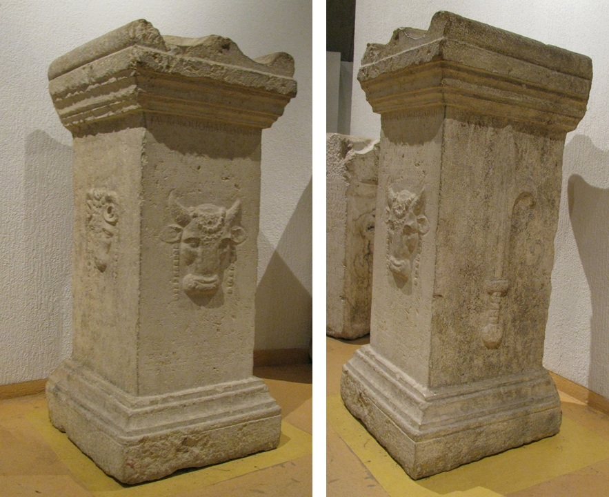 Ara found in Lugdunum (Lyon France). Inscription of 160 AD for emperor Antoninus salvation